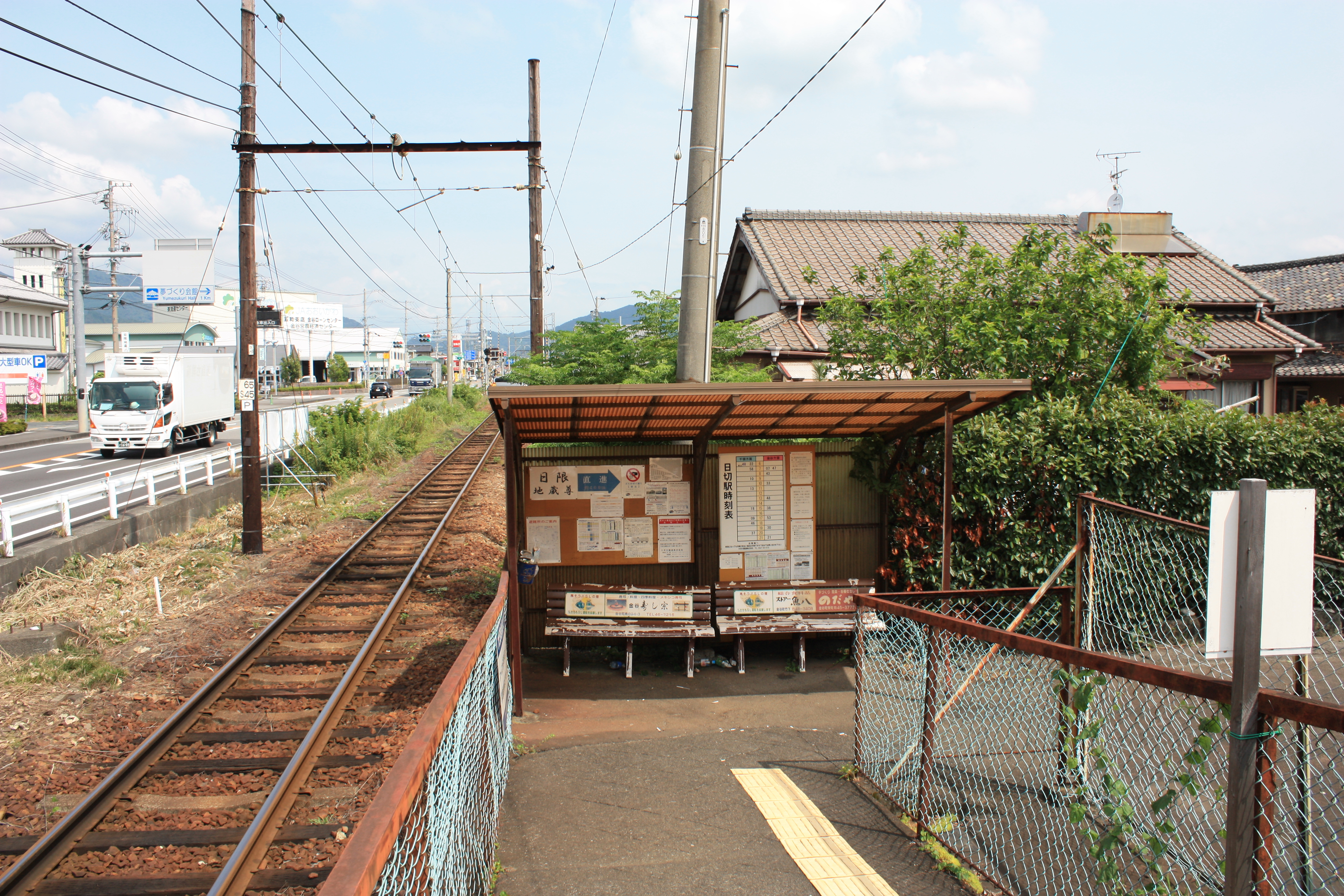 The passenger waiting shelter at Higiri Station